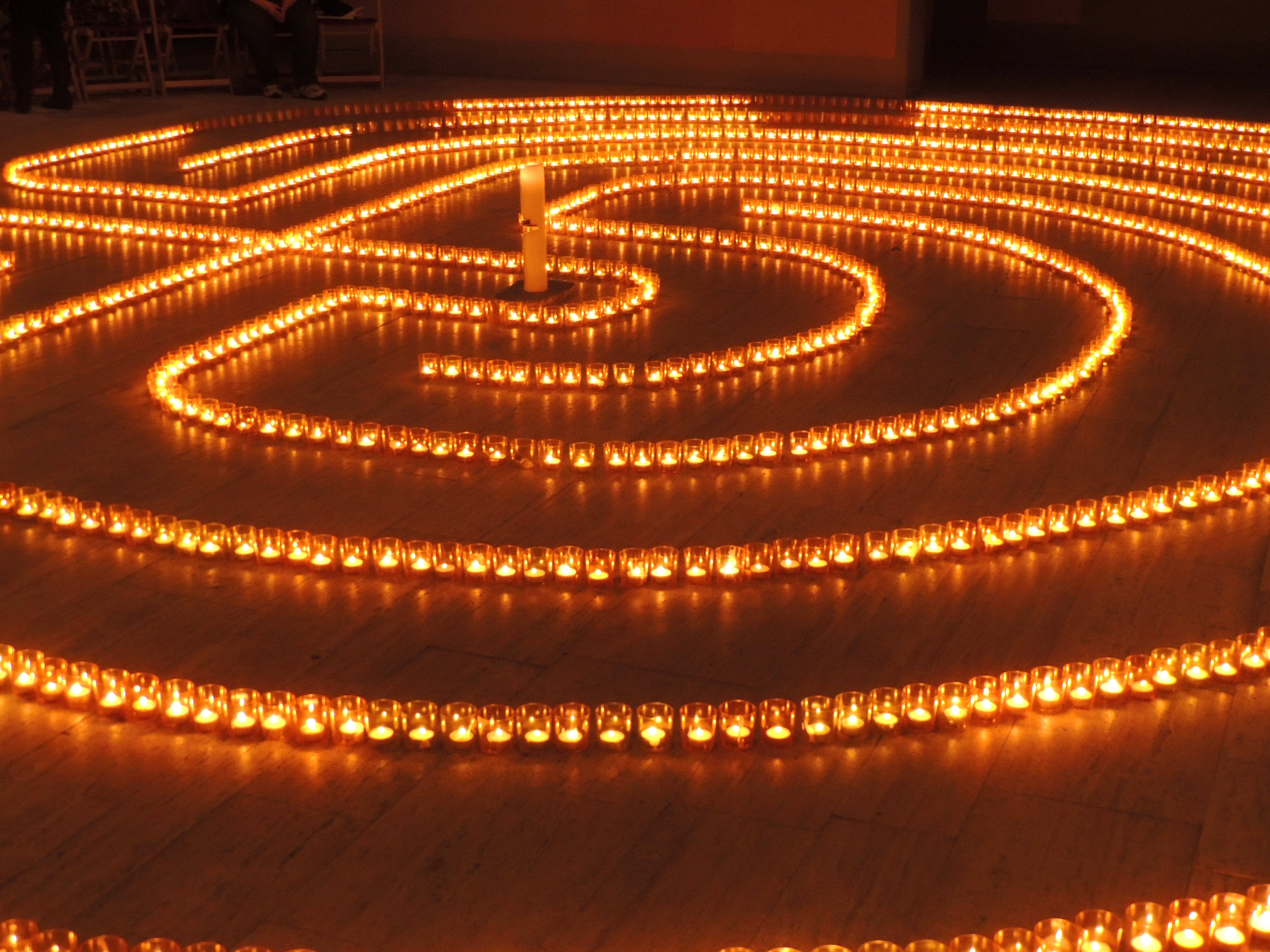 Labyrinth made with 2500 burning tealights in the Holy Cross Church of the Centre for Christian Meditation and Spirituality of the Diocese of Limburg in Frankfurt am Main-Bornheim